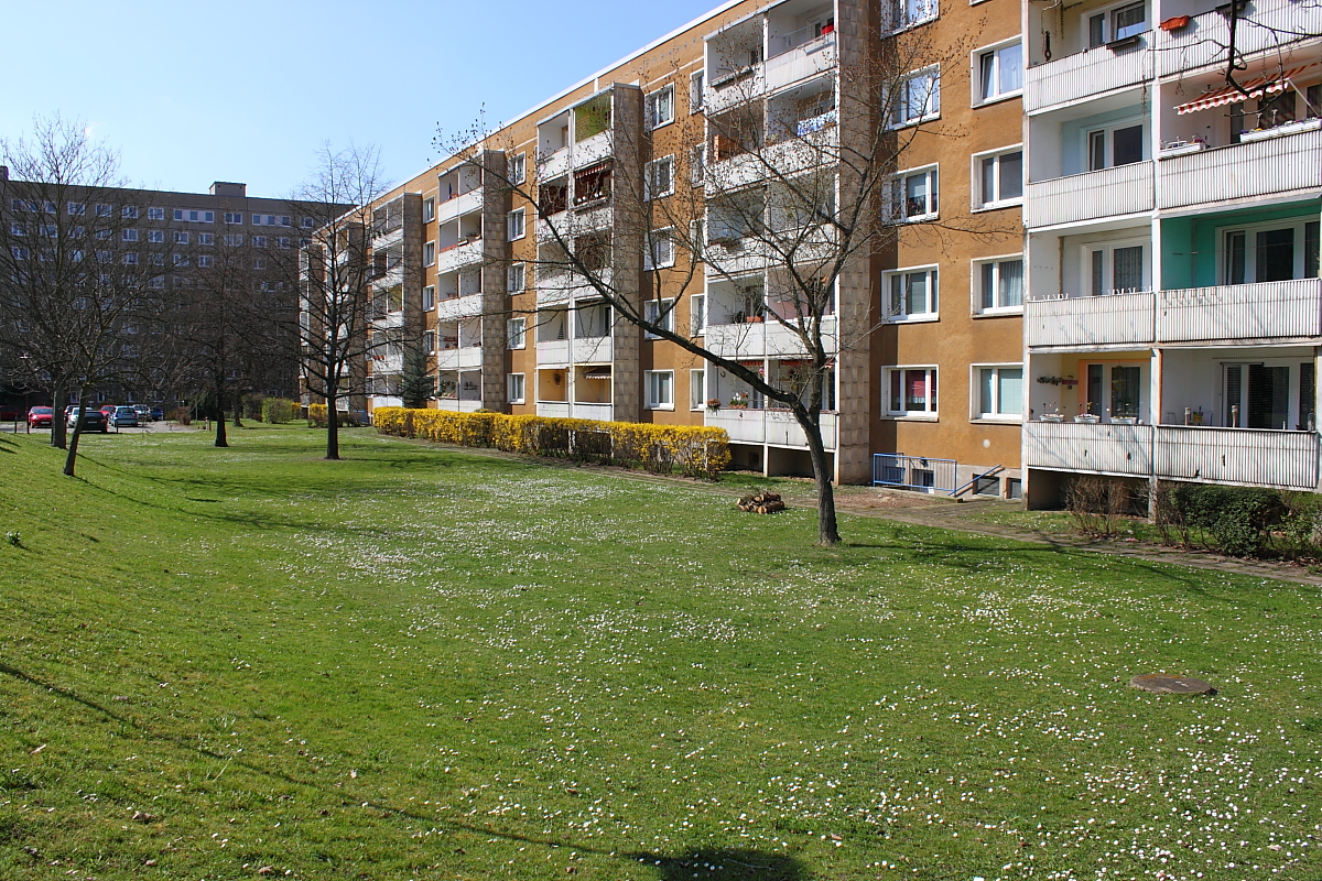 Typischer 5-Etagen-Block nach der alten DDR-Bauweise in Lobeda-West